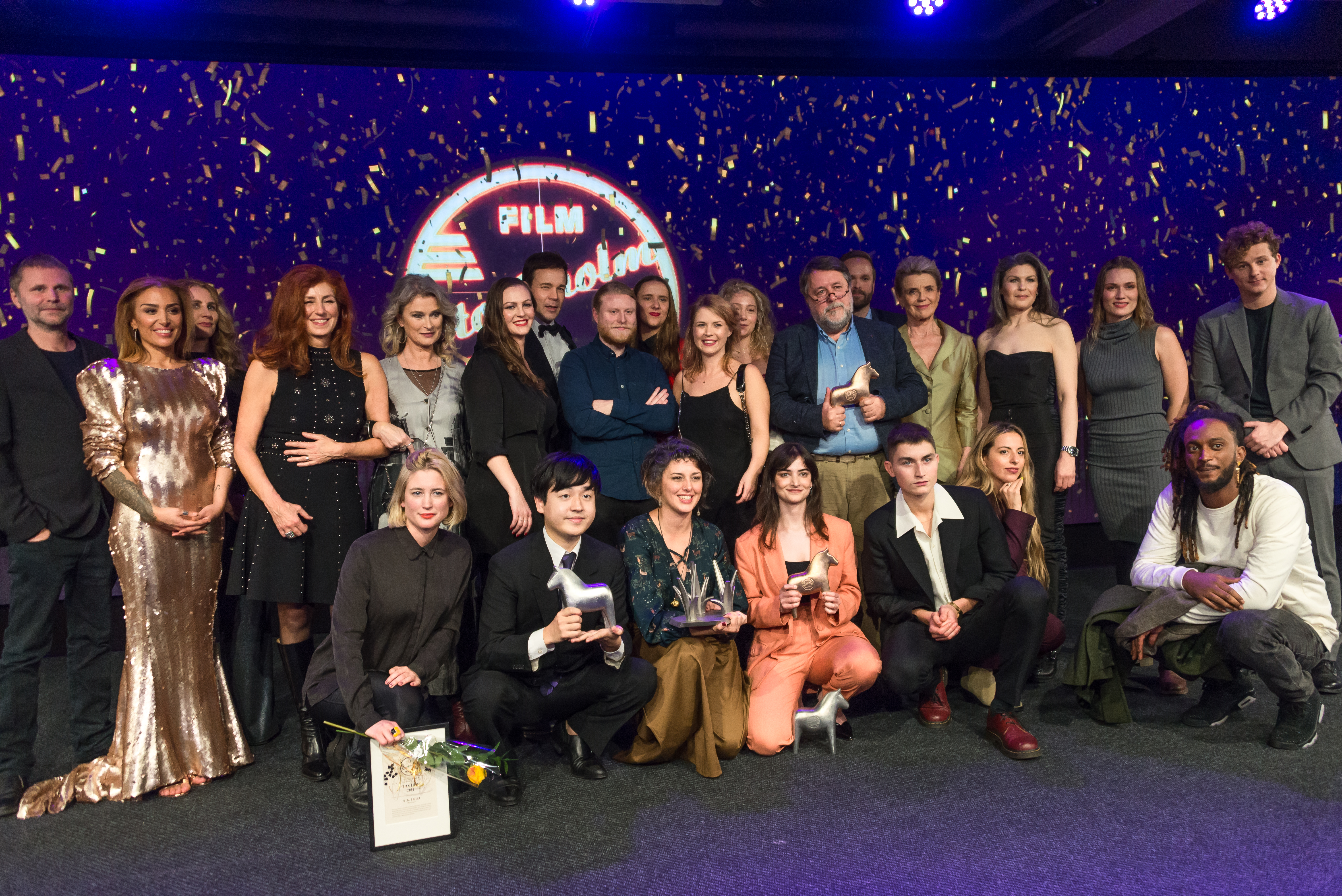 Award winners at Stockholm International Film Festival 2018. And Git Scheynius, CEO of Stockholm Film Festival (red hair) and Swedish actors and film workers.